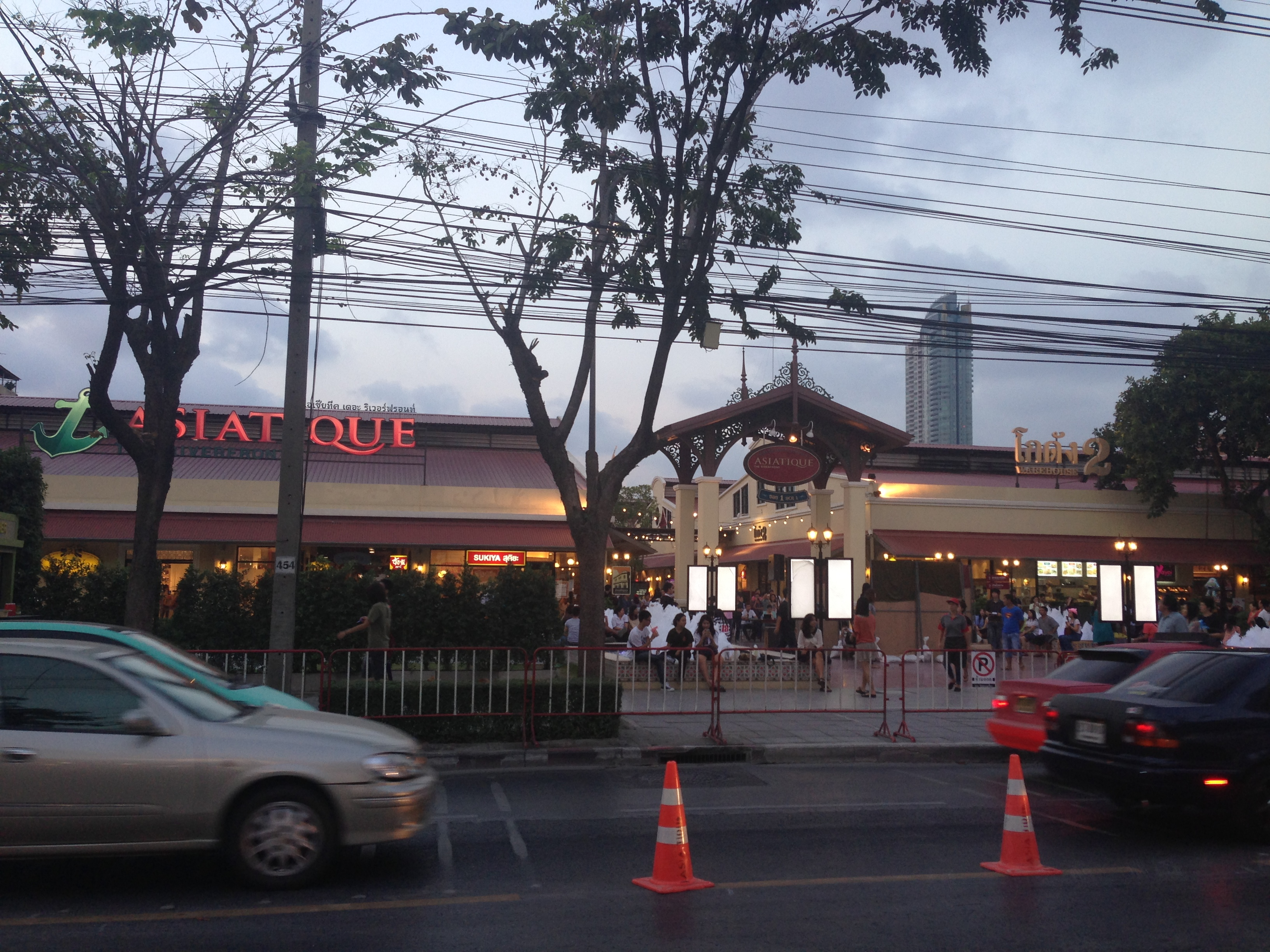 Asiatique, bangkok, Thailand.